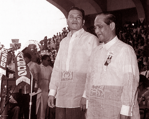 Ramon Magsaysay and Carlos P. Garcia